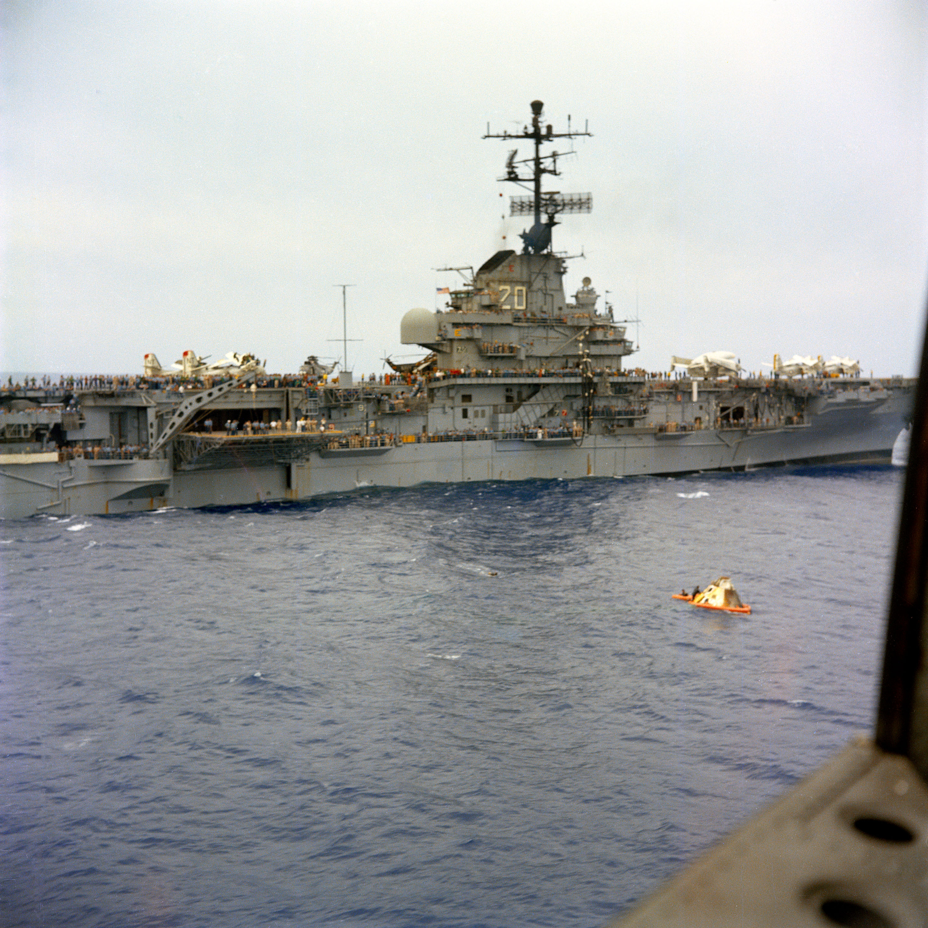 The U.S. Navy aircraft carrier USS Bennington (CVS-20) comes alongside the floating Apollo 4 spacecraft Command Module during recovery operations in the mid-Pacific Ocean. The Command Module splashed down at 15:37 hrs, 9 November 1967, 1730 km northwest of Honolulu, Hawaii (USA).